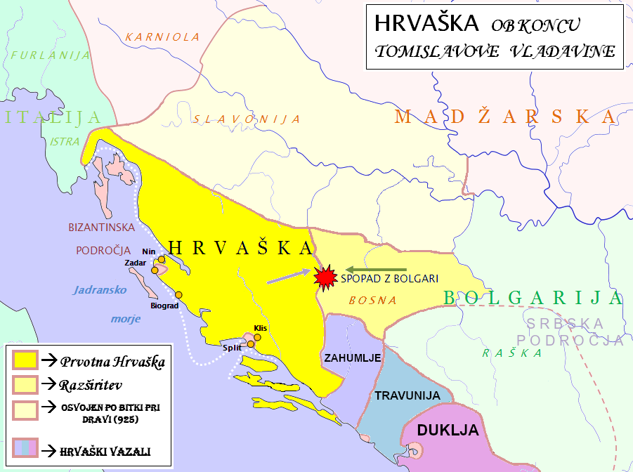 Map of Croatia during the last years of Tomislav's reign. This map is based on the written sources in: 1. Klaić (1990). Pages 72-74- for descriptions of Slavonia region and Bulgarians; 2. Goldstein (2008). Pages 37-38- for descriptions Slavonia region and Bulgarians; 3. Voje (1994). Page 54 for Slavonia region, page 68 for Bulgarians, pages 79-81 for description of serbian lands; 4. Štih Peter (2001). Ozemlje Slovenije v zgodnjem srednjem veku. Ljubljana, Filozofska fakulteta. Page 82 for description of slovenian lands after Hungarian conquest. For retrospective approach look at the map f Hungary at the and of 11th century- in 1. Kontler Laszlo (2005): Madžarska zgodovina. Ljubljana, Slovenska matica. Page 65.